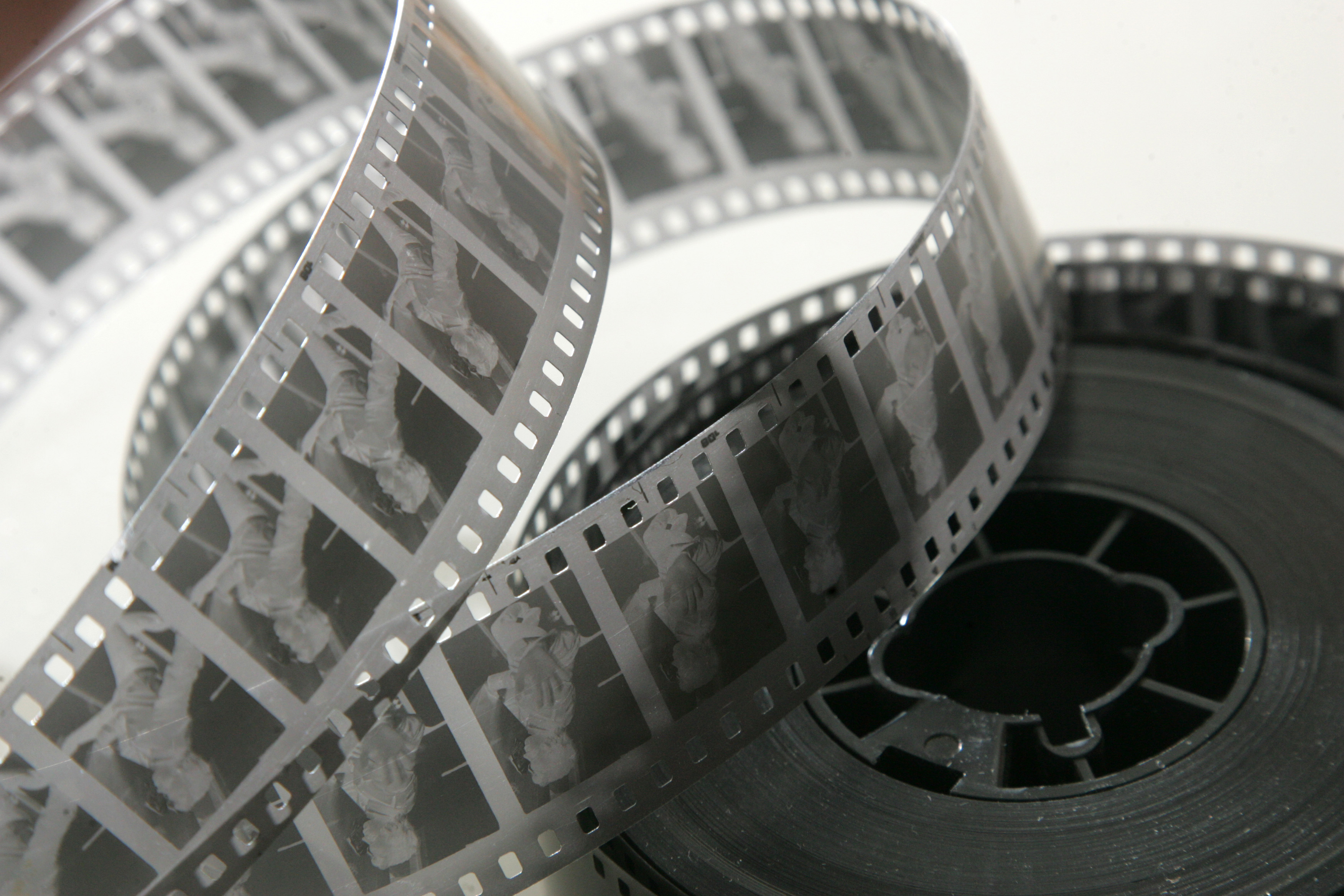 35-mm black&white movie film negative stock on the core. Classic ratio standart.